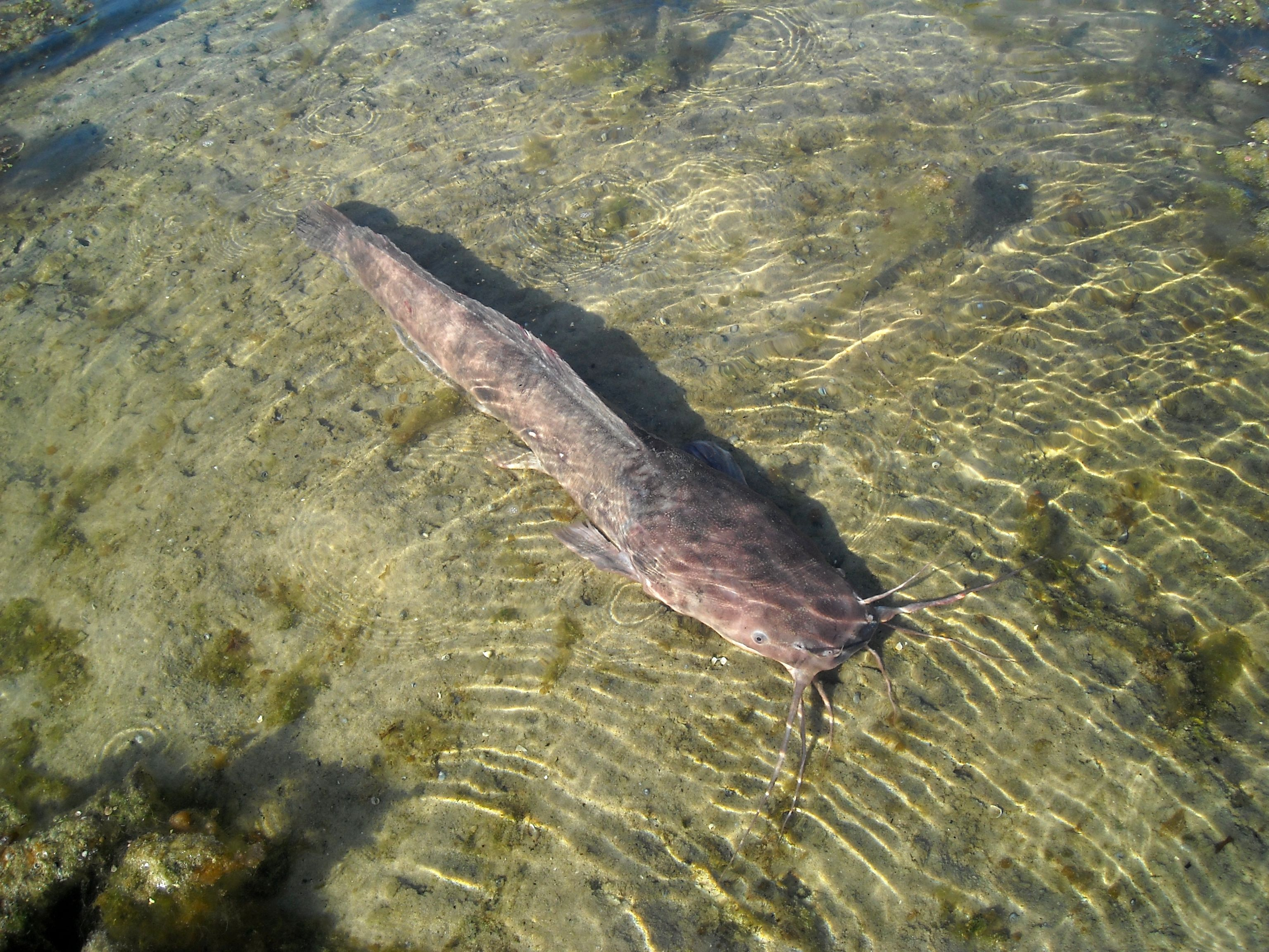 Clarias anguillaris, artificially cultured in Kursk region, Russia